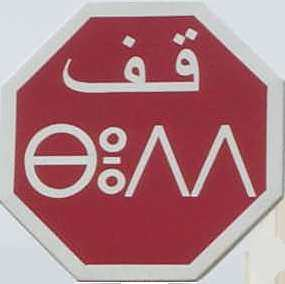 My graphic work from an anonymous and seemingly uncopyrighted photograph taken on april 29th, 2003 in Nador (Morocco) and spread in the net in the following days. Top: "Stop" in Arabic (qif). Bottom: "Stop" in Berber (bedd). Neo-Tifinagh alphabet.